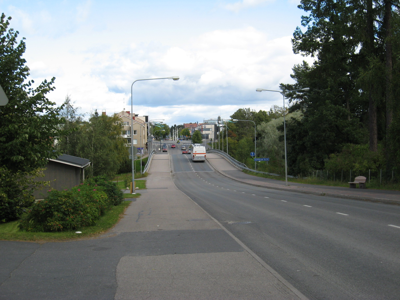 Seppola bridge and the main street of Jämsä, Finland (September 7, 2007)